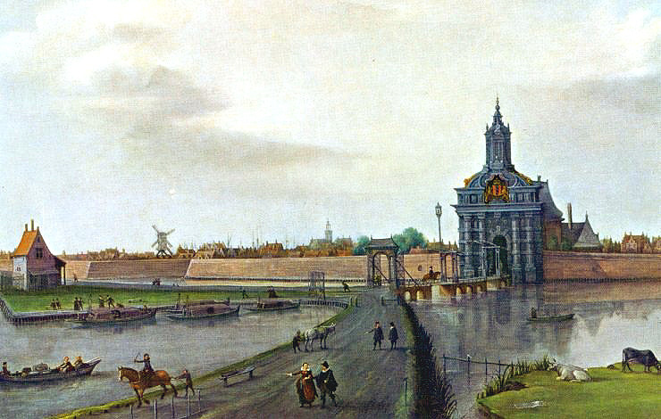 The Haarlem gate in Amsterdam, built by Hendrick de Keyser, and painted in 1615. On the left we see the tow-boats waiting for passengers. One horse is led to the boats, another is led away from the boats after work. This one is mounted by a man with a whip. Both horses have the traces to be harnessed to the boat.